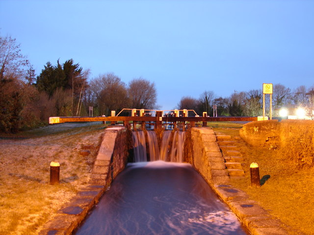 9th Lock at Clondalkin Bridge Taken in the orange glow of the street lights with a long exposure from the bridge at Lucan Newlands Road.